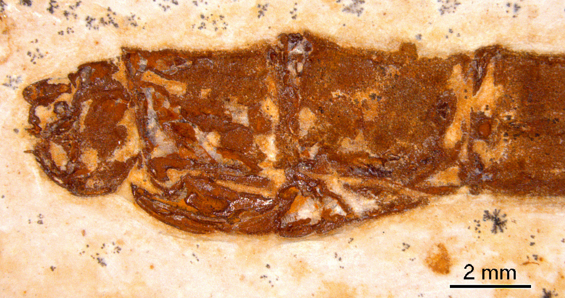 Cratostenophlebia schwickerti (Odonata: Stenophlebiidae), Lower Cretaceous, Crato Formation, Brazil, female allotype WDC137, ovipositor